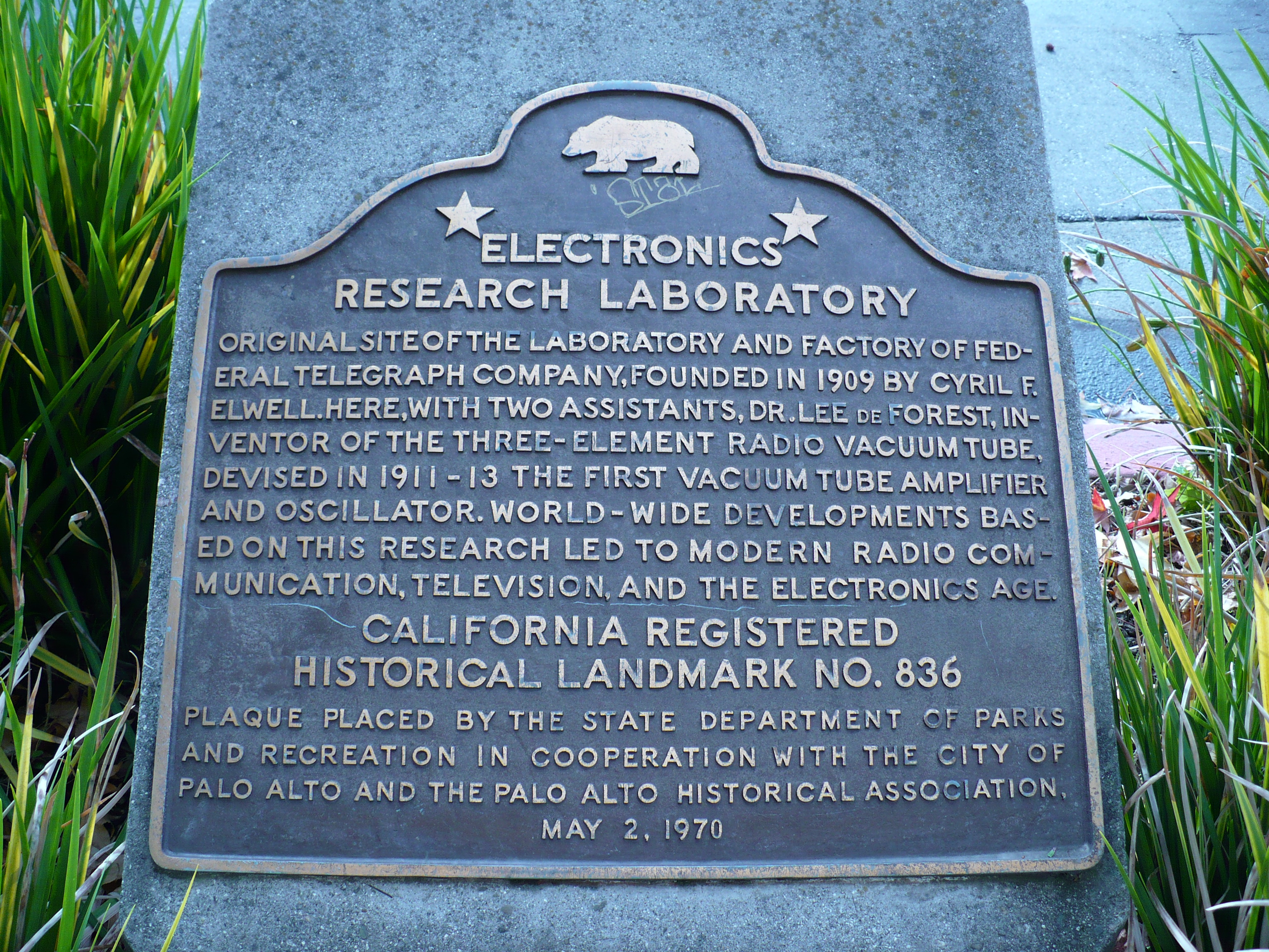 Photo of California Historical Landmark No. 836